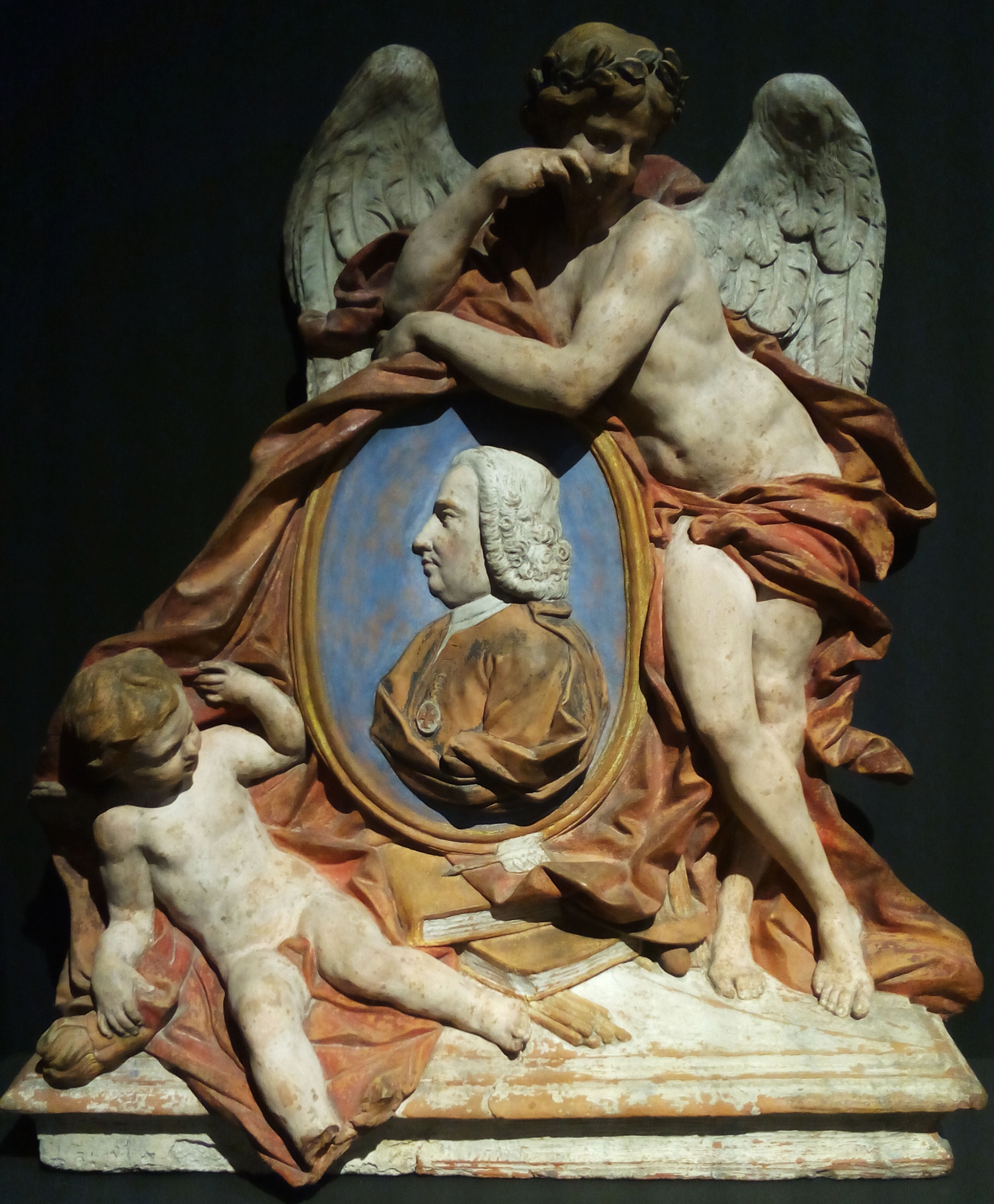 Replica of the funerary monument to Manuel Pereira de Sampaio (1692-1750), Portuguese ambassador to the Holy See in the 18th century. Museum of Lisbon.